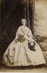 Maude Stanley, youth work pioneer, by Camille Silvy.